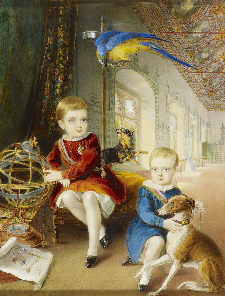 Peter V and Louis I of Portugal, as Prince Royal and Infante of Portugal, respectively.